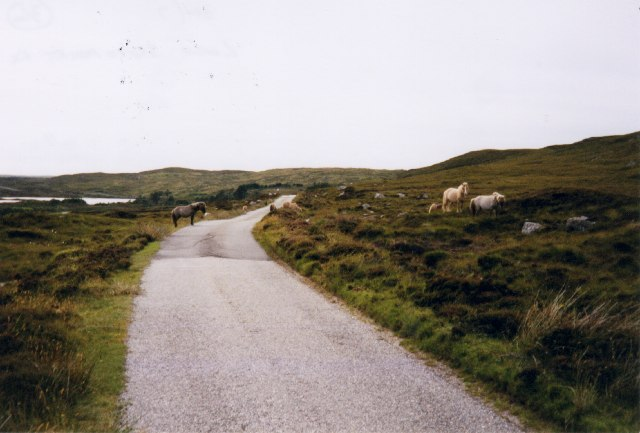 Eriskay ponies on the bogs near Loch Sgioport. Obviously a very tough and inhospitable environment